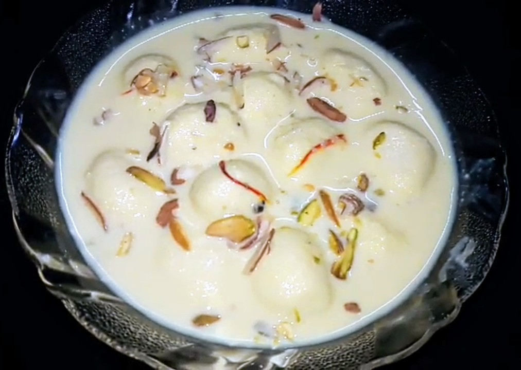 Khira sagara, a popular sweet dish of Odisha